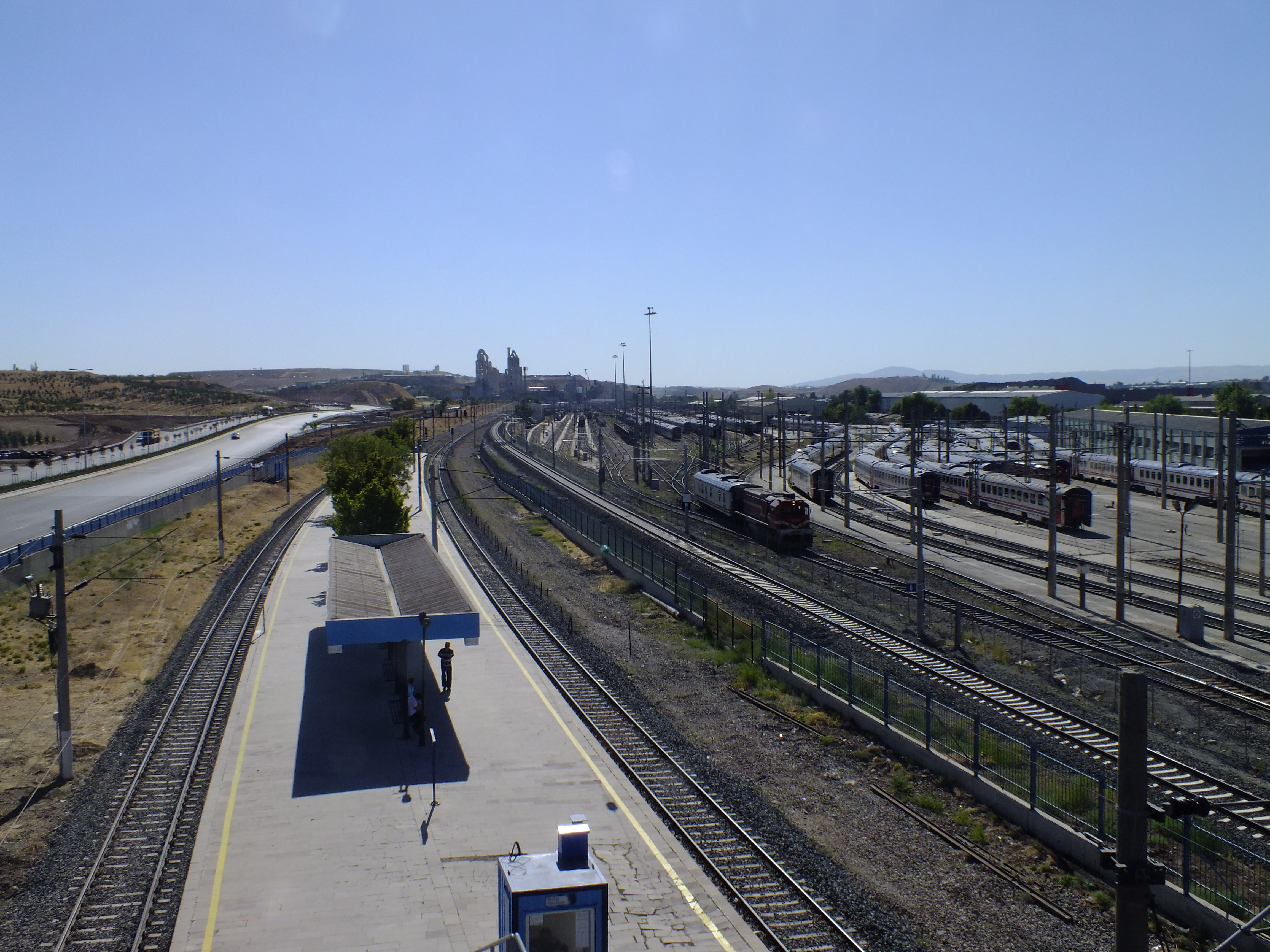 Marsandiz station in 2013, before reconstruction.